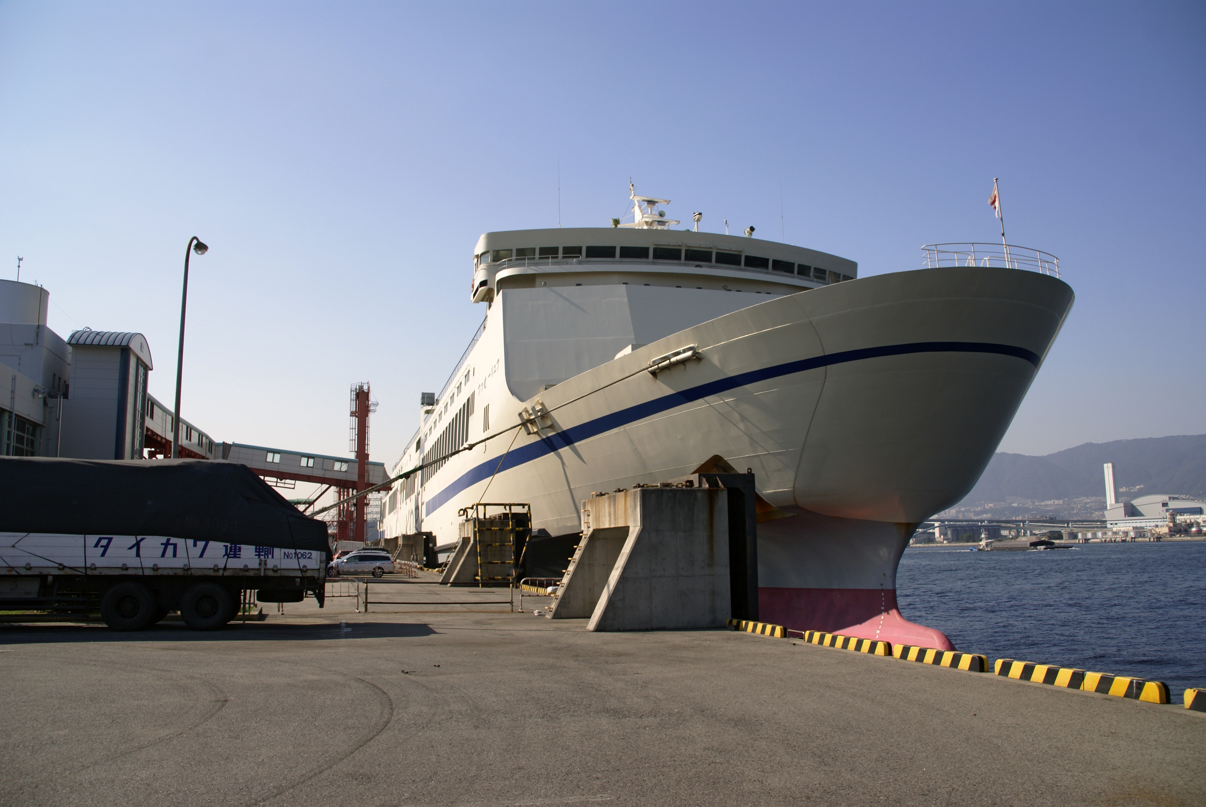 "Ferry Settsu" at Rokko Island Ferry Terminal of the Kobe harbor ( Kobe, Hyogo, Japan )